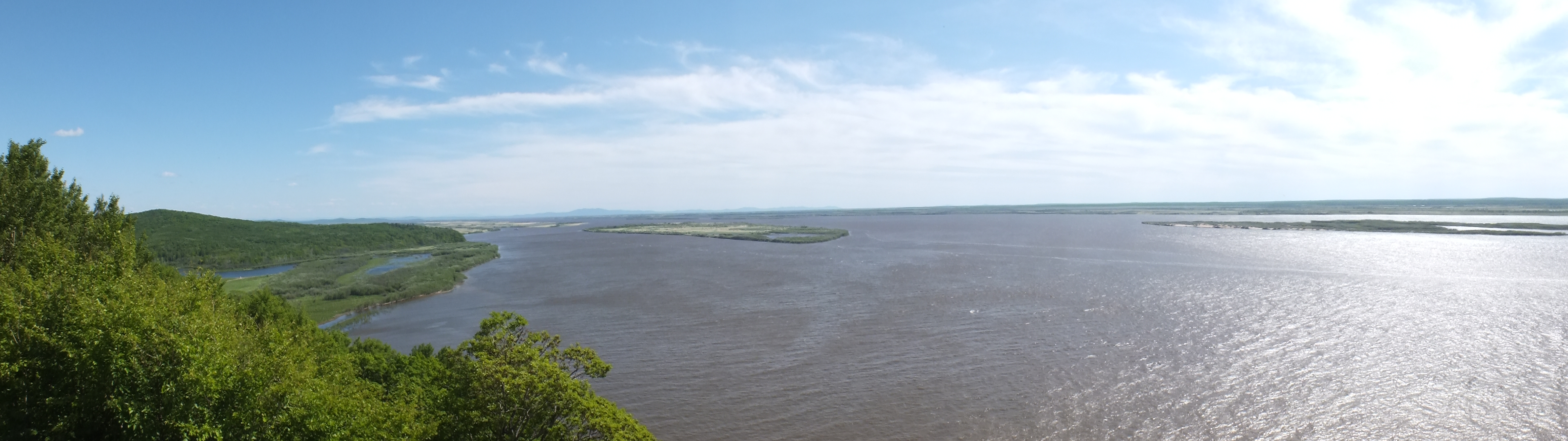 Malmyzh Nanayskiy rayon